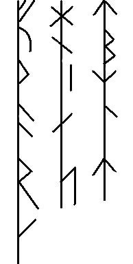 bind rune inscription. The three aetts of the Younger Futhark written on a single stave each. Based on Enoksen's "Runor", 1998, p. 83.